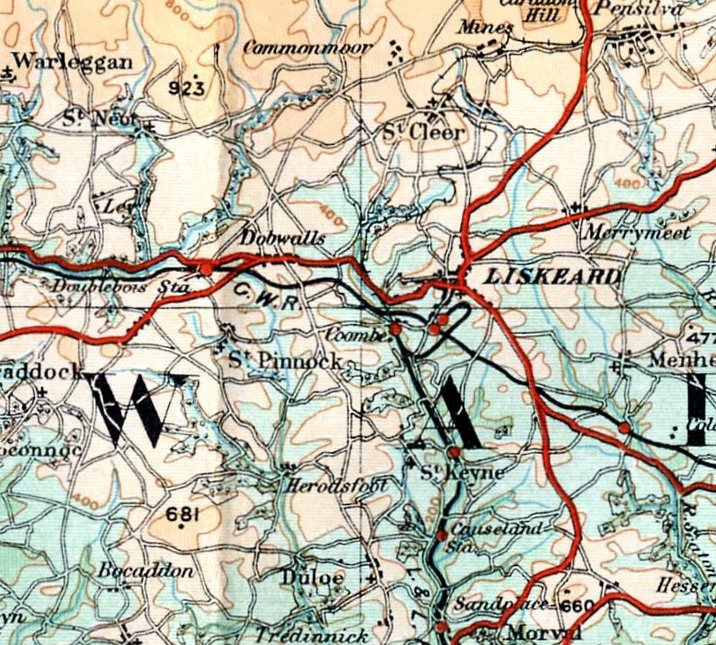 The OS Half-Inch Atlas of England and Wales was published in the 1920s. As Crown Copyright is for a term of 50 years, these are now in the Public Domain. This image is take from a scan of a folio from a copy in my possession, cleaned up and corrected.